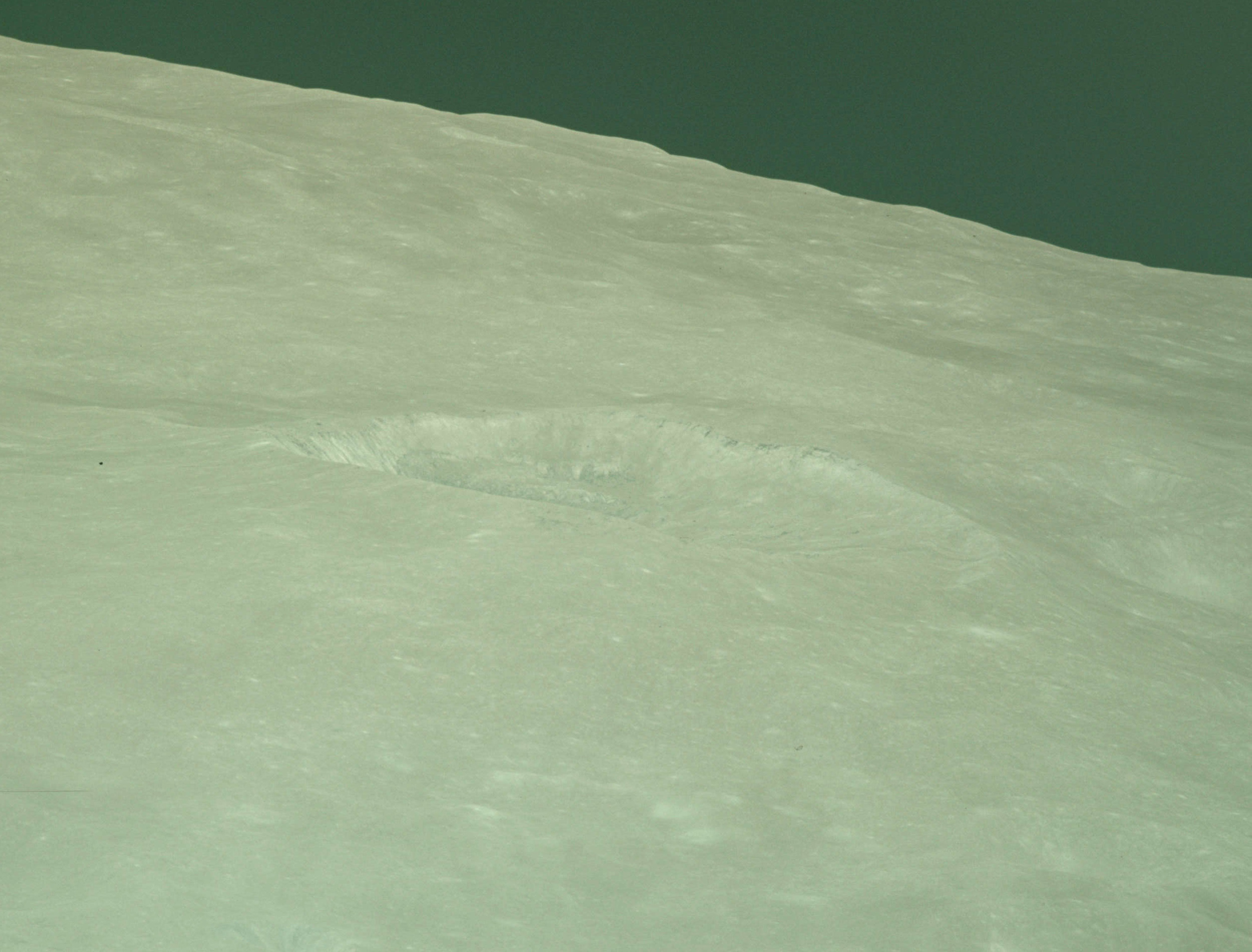 Highly oblique view of Necho crater, on the far side of the moon. Cropped from original and brightness and contrast adjusted.